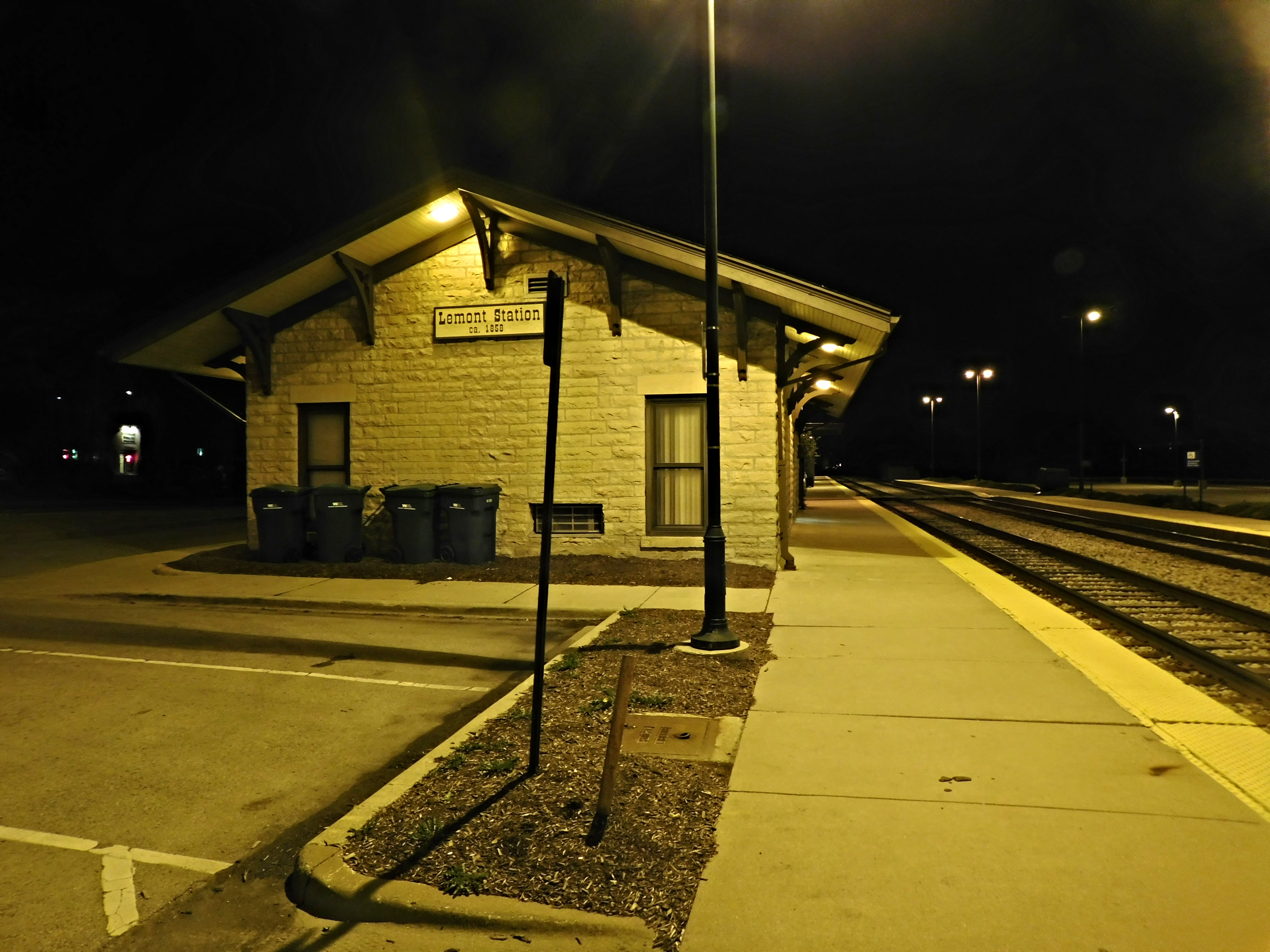 The Lemont station for Metra's Heritage Corridor in April 2016.